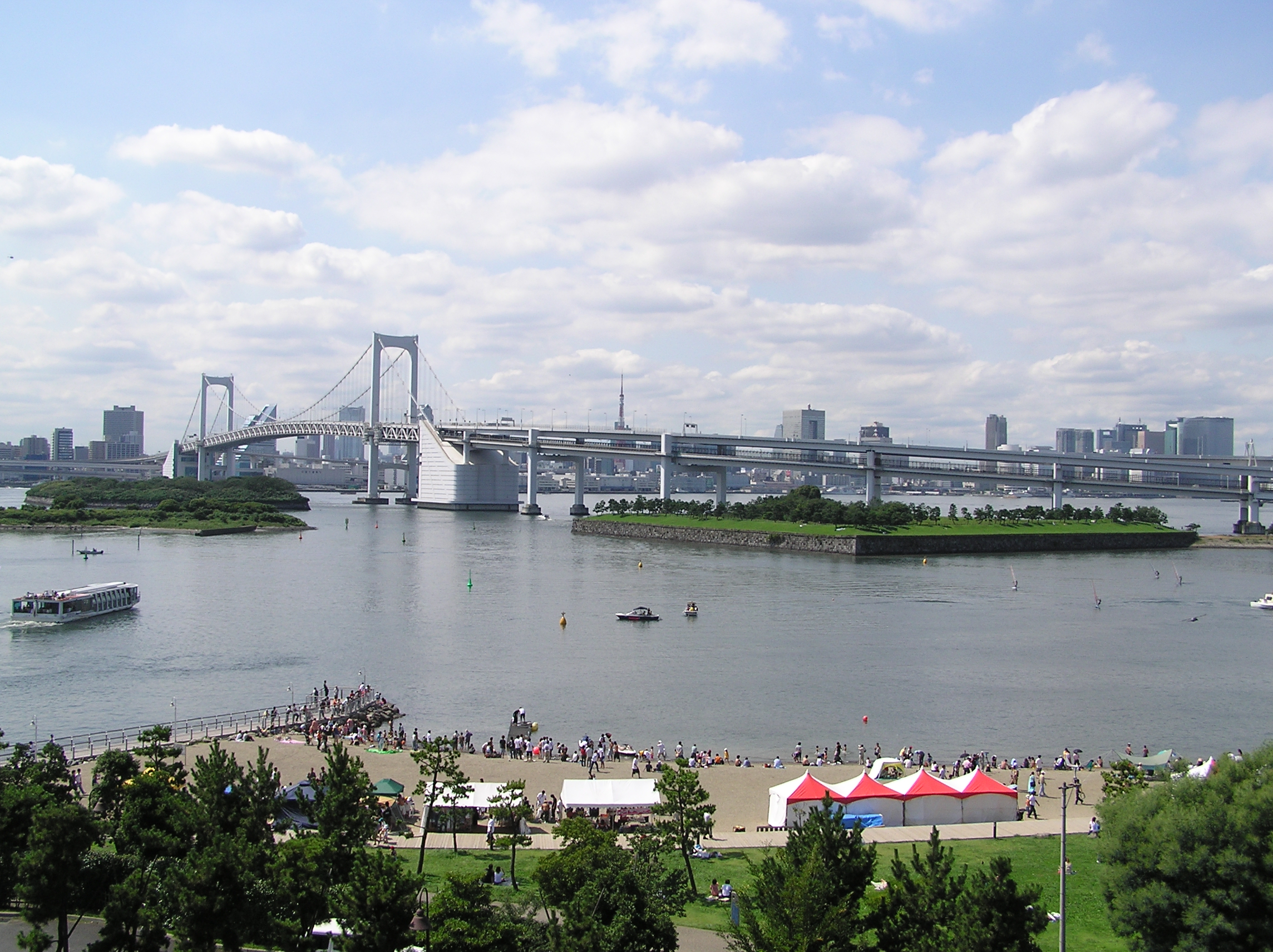 Rainbow Bridge, Tokyo Harbar Connecting Bridge, Odaiba, Tokyo, Japan